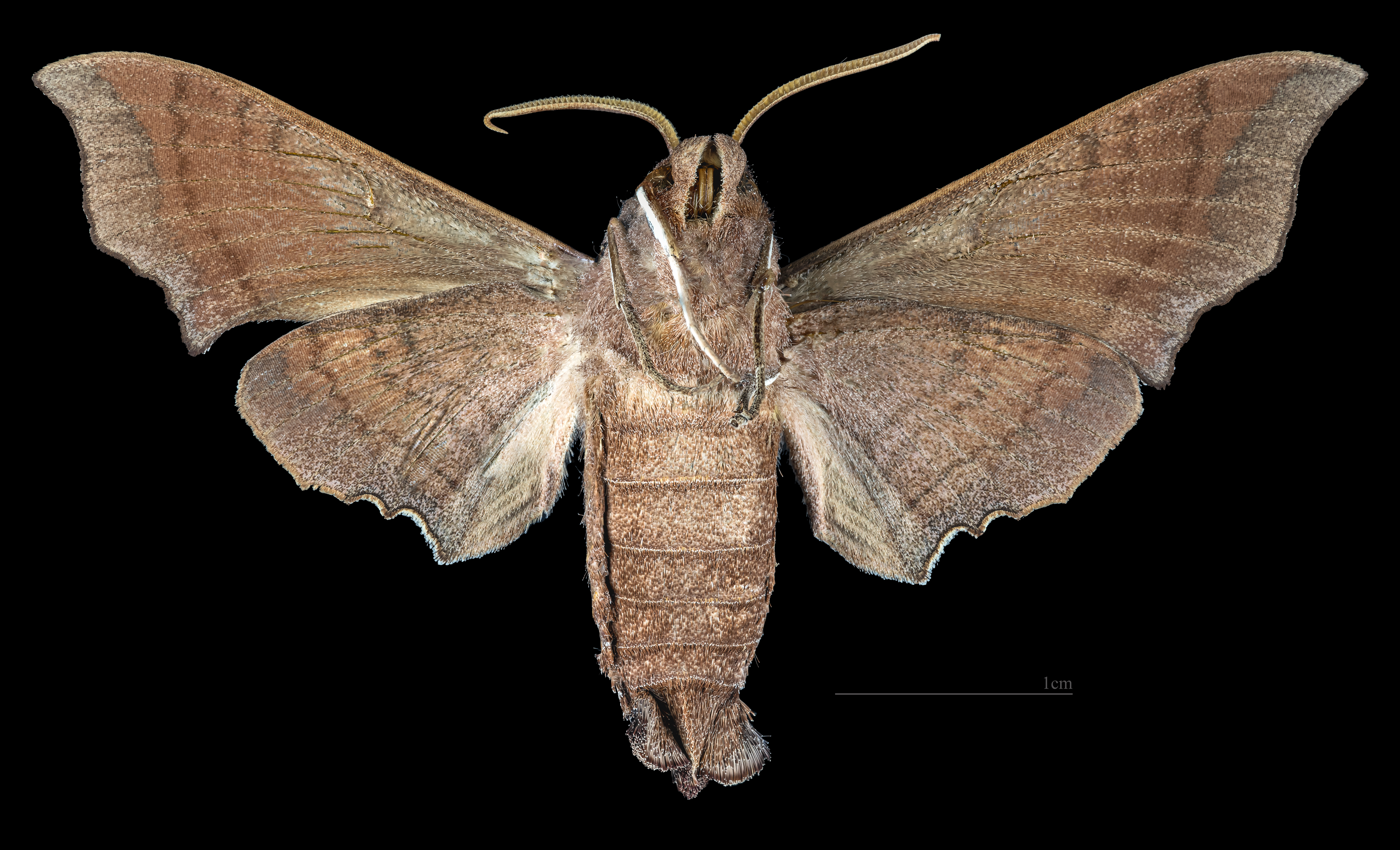 Perigonia leucopus - △ Ventral side Collection of the Mathematician Laurent Schwartz